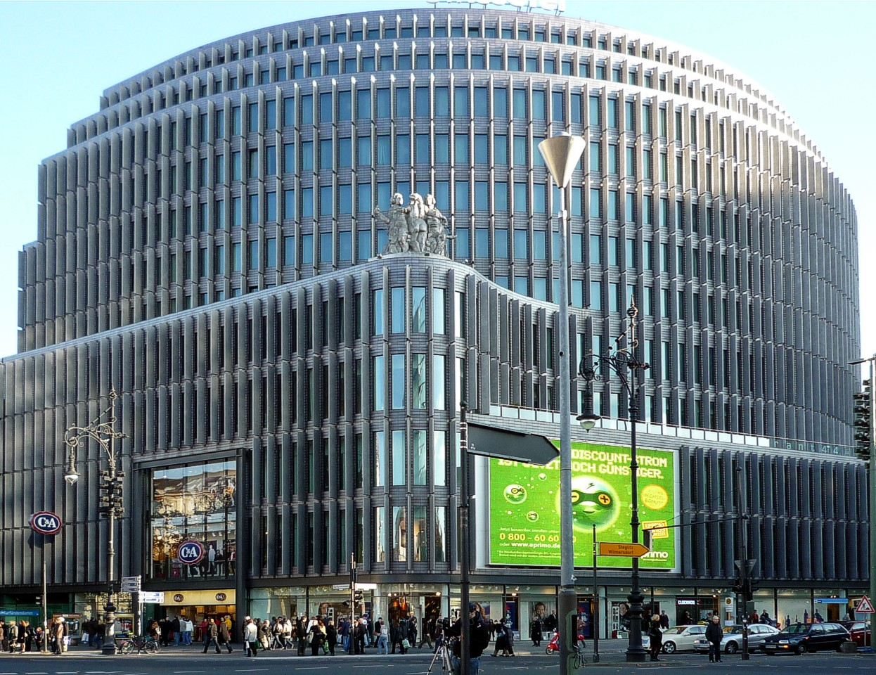 Berlin, road crossing Kurfürstendamm/Joachimstaler Straße. View to south.